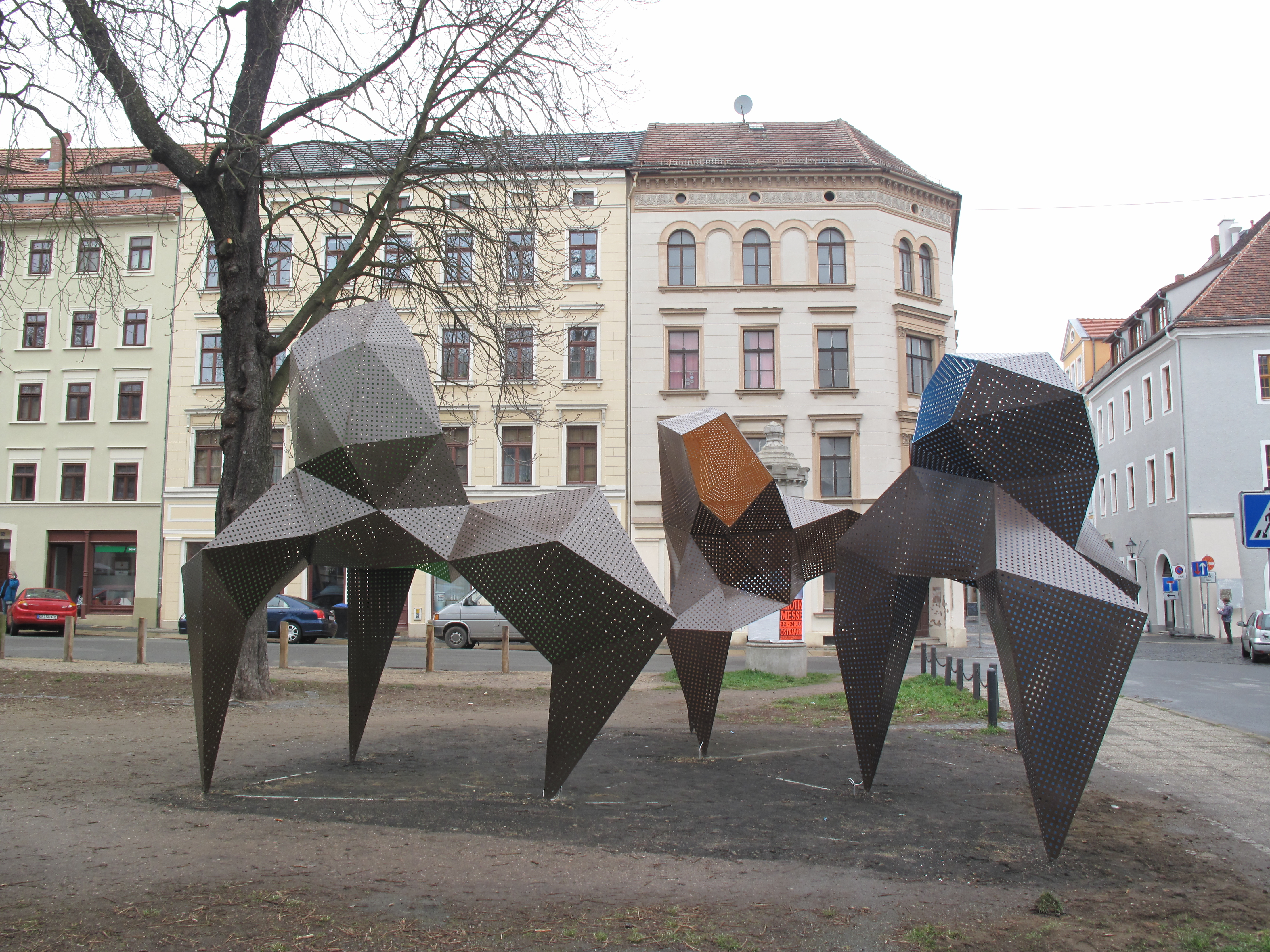 Work of Art (luminous installation) "Herde" (english:´herd´) by Piotr Wesołowski as part of Görlitzer ART